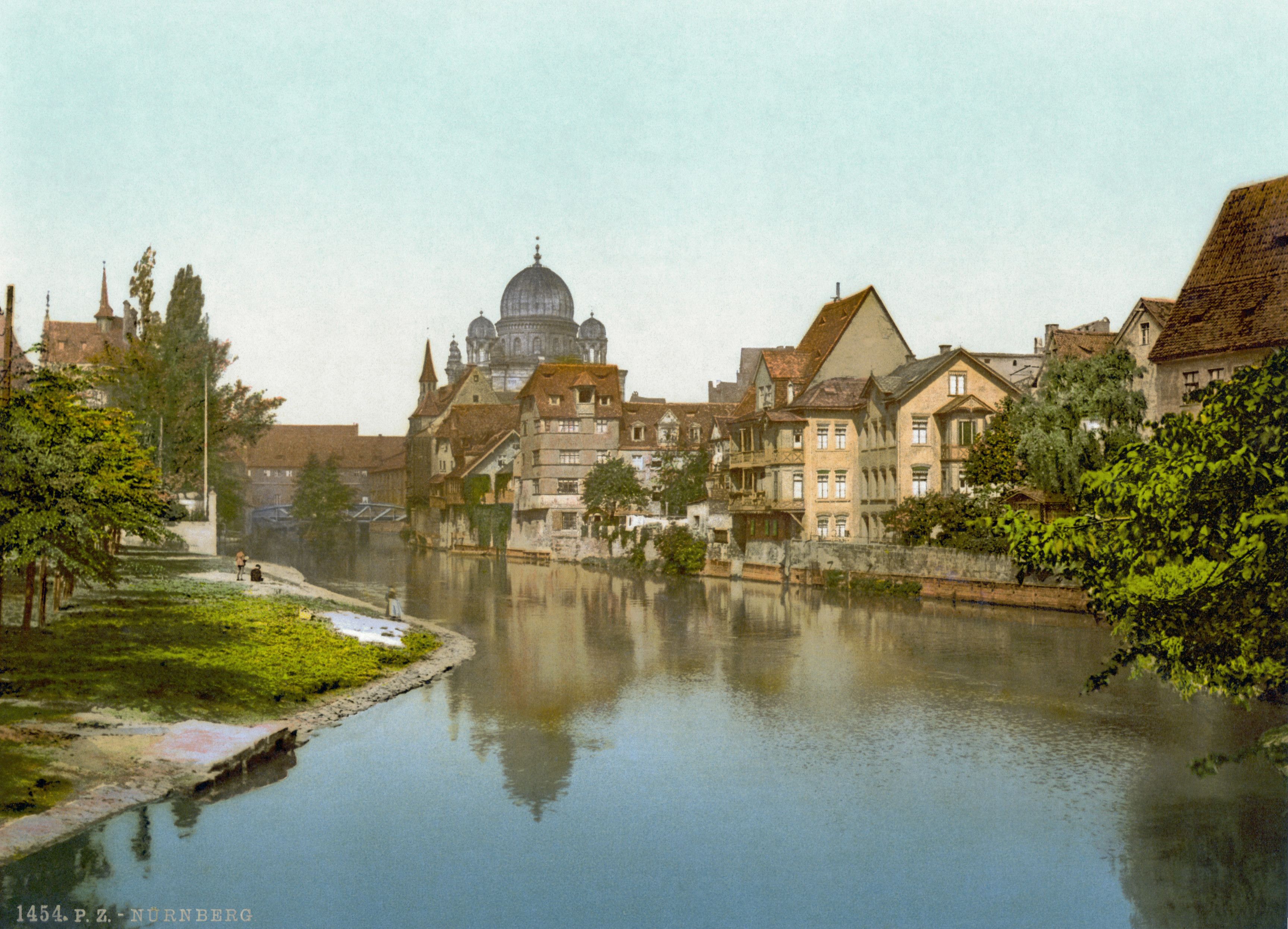 The Pegnitz shore and Synagogue, Nuremberg, Bavaria, Germany Print no. "1454"